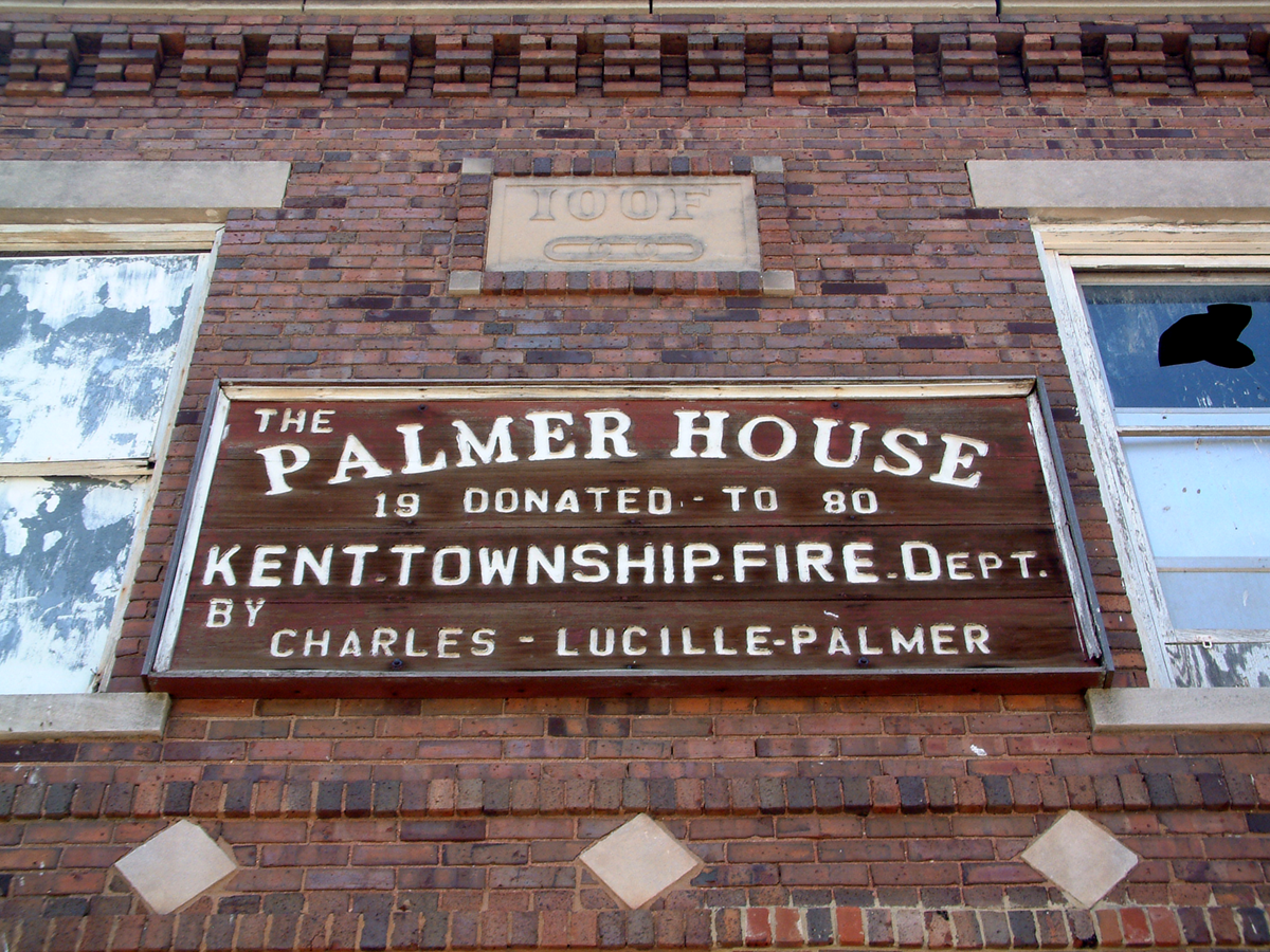 The Palmer House, a building at the corner of Main Street and Woodard Street in State Line City, Indiana. Photo shows the building's east side, with a board commemorating its donation in 1980 to the Kent Township Fire Department, above which is the logo of the Independent Order of Odd Fellows.